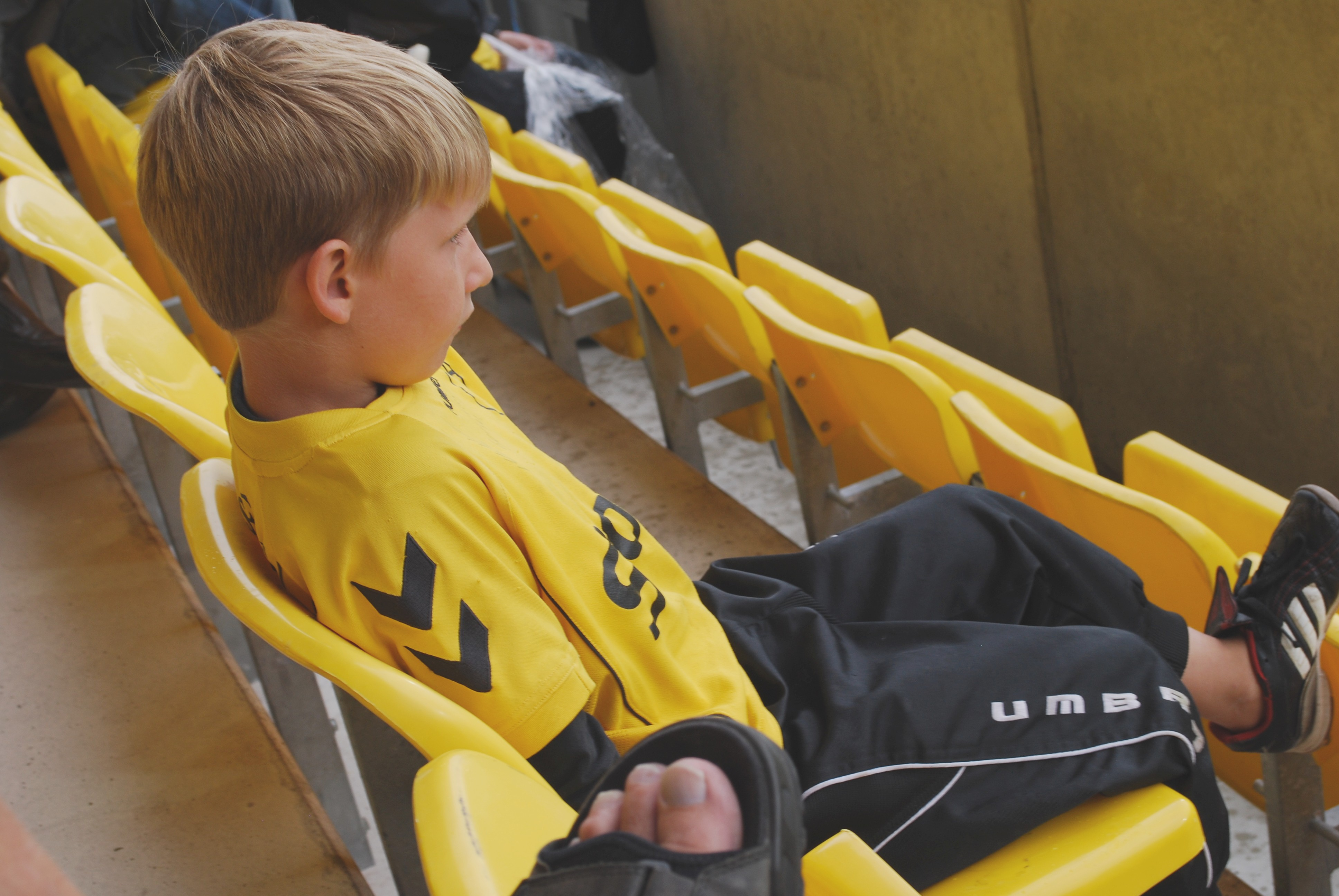 Casa Arena Horsens, Denmark